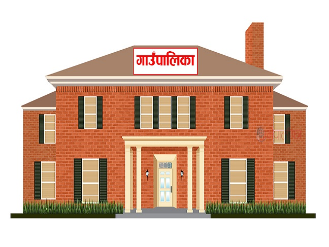 Gaunpalika नेपाली: गाउँपालिका